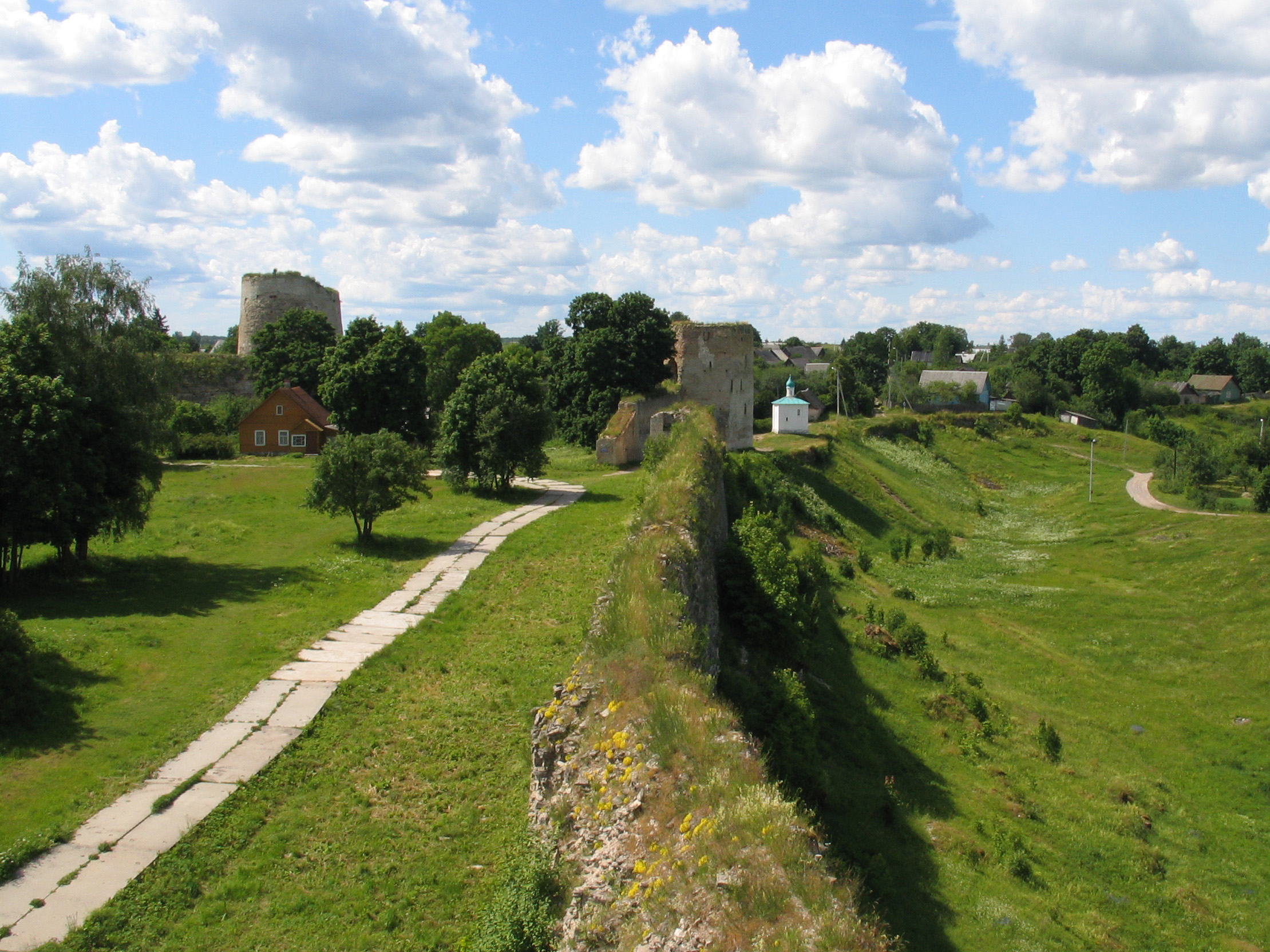 Fortress of Izborsk.